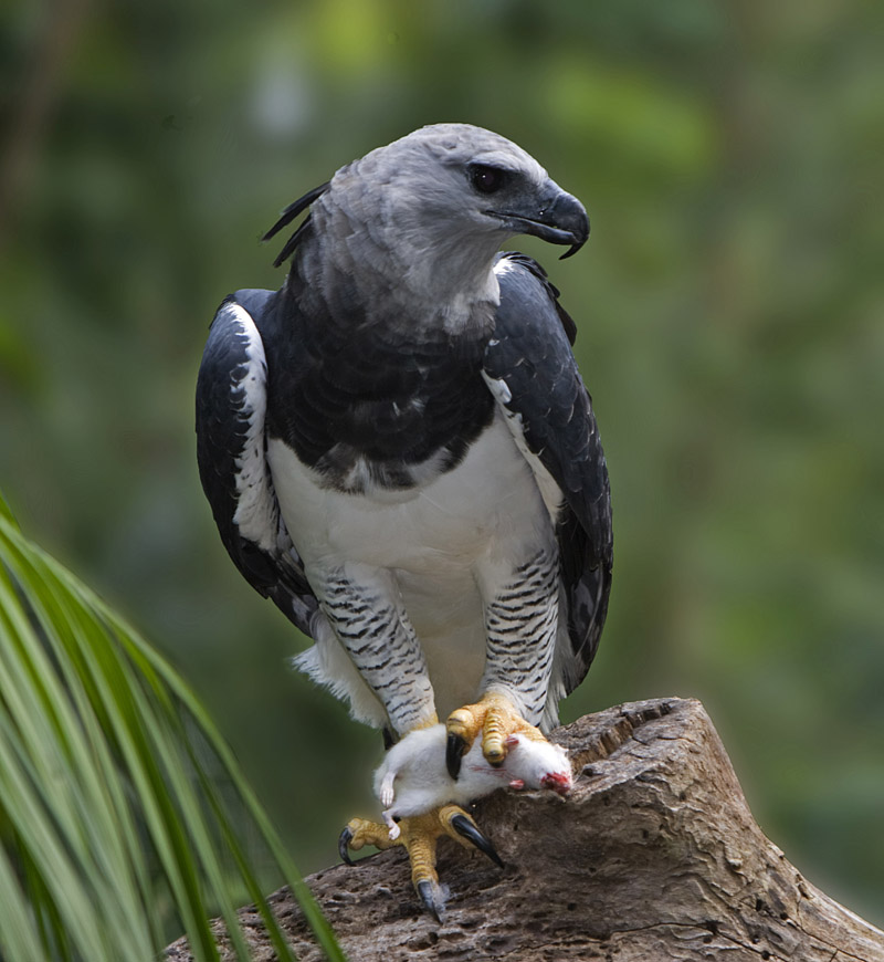 Male Harpy Eagle, shot at Parque das Aves, Foz do Iguaçu, Brazil. The background has been blurred in an image editor.